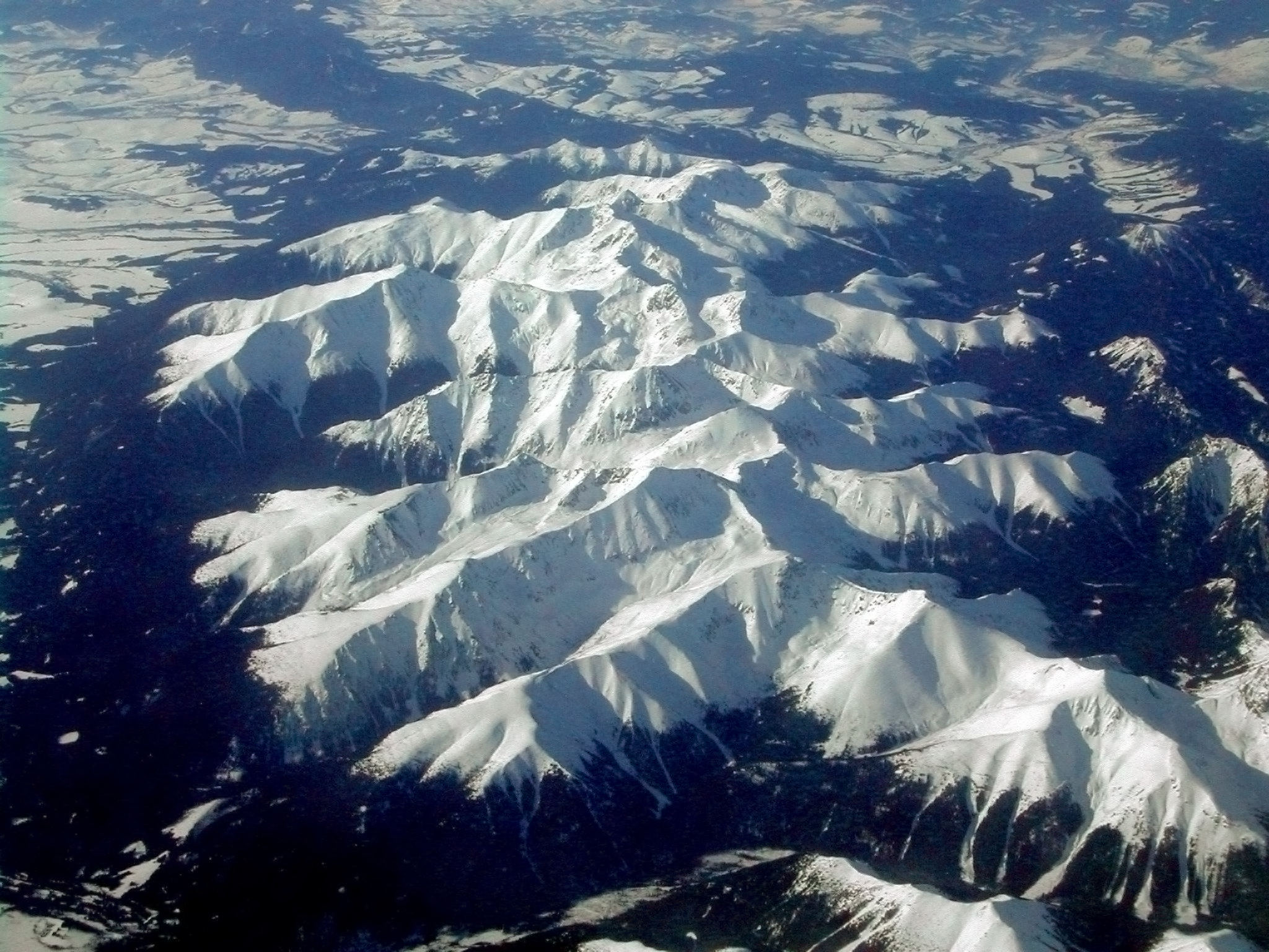 Tatra Mountains - western side in winter. Photo taken 30.01.2006. from an airplane from the East to the West.